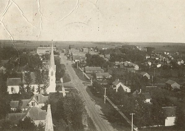 Black and white photo of Blooming Prairie, Minnesota from a postcard published by Olson and Fjelstad postmarked 1906